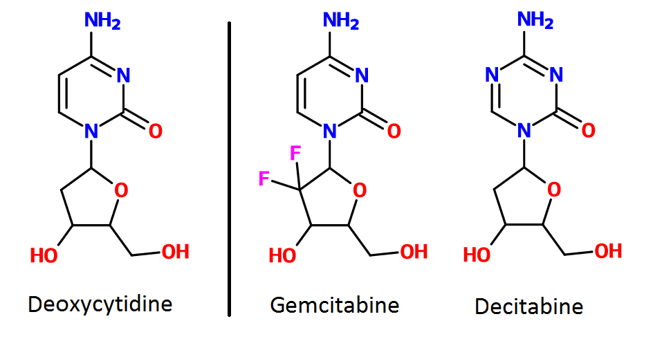 Chemical structures of Deoxycytidine, Gemcitabine and Decitabine. Deoxycitidine is a building block of DNA. Gemcitabine and Decitabine are anti-metabolite drugs that are used to treat cancer.[1] Created using eMolecules.